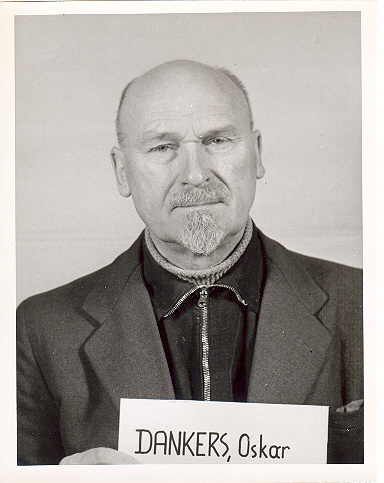 Oskars Dankers at the Nuremberg Trials. (Sometimes misspelled "Oskar Dankers".) Dankers (1883–1965) was an army general in independent Latvia between First and Second World War. Emigrated to Germany in 1939 upon Soviet occupation. Director-General of Internal Affairs during German occupation 1941-44. This photograph of Dankers (probably as a witness) was taken by US Army photographers on behalf of the Office of Chief of Counsel for War Crimes (OCCWC) sometime between 1947 an 1948. Depositions of Dankers were taken on August 4, August 1947 and on June 24, 1948, Nuremberg Dokument-IDs: NO-33000 and NO-5924.